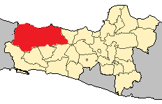 karesidenan pekalongan